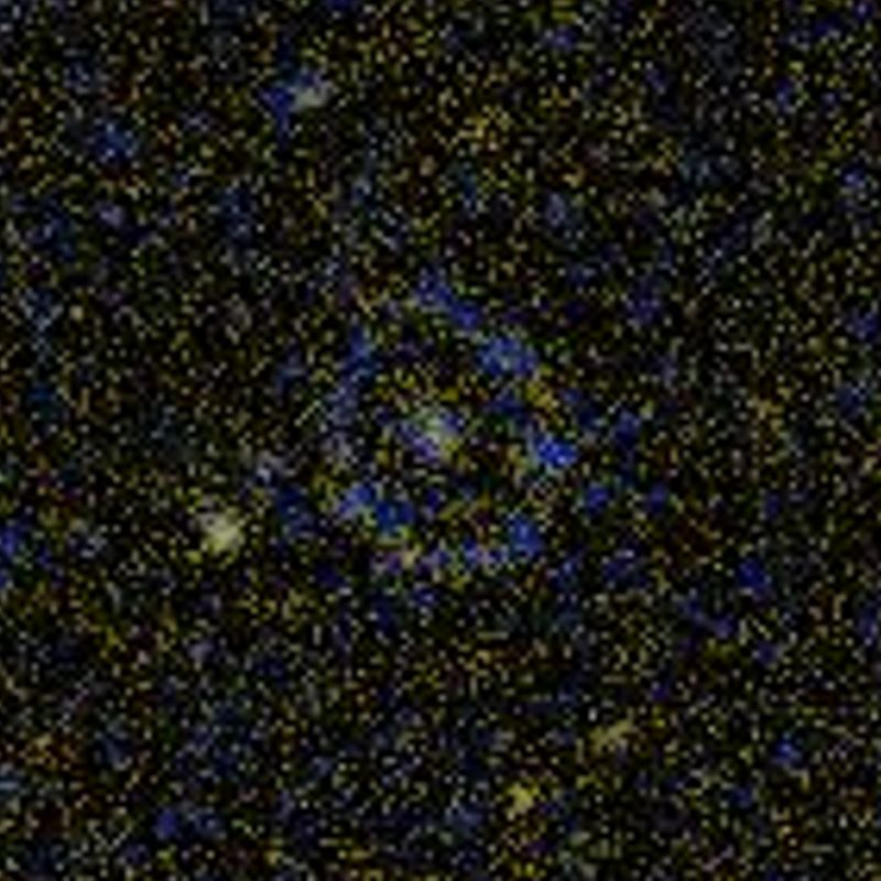 PGC 1000714 (or 2MASX J1123164-0840067) - NASA GALEX